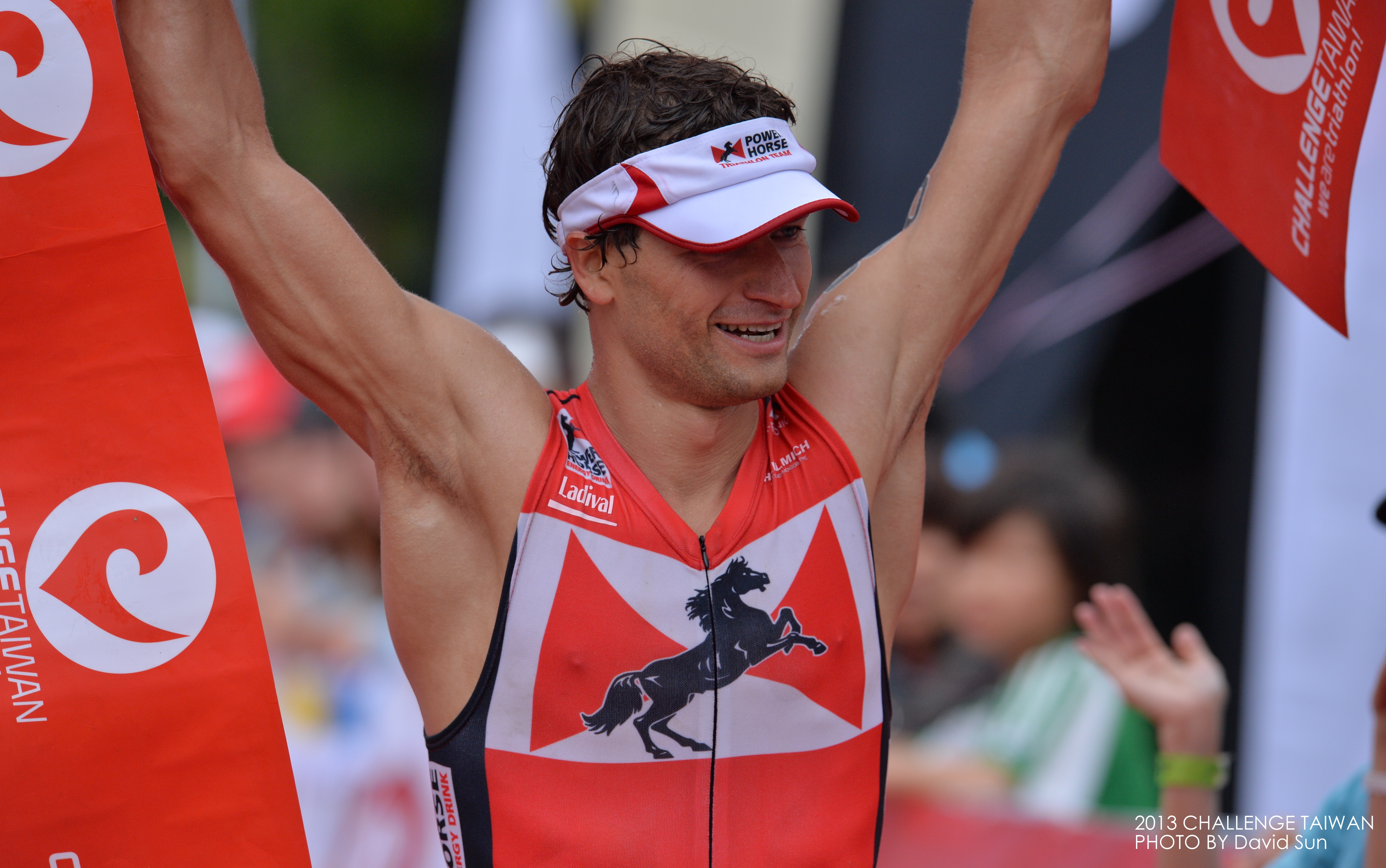 Georg Potrebitsch finishing at Challenge Taiwan 2013